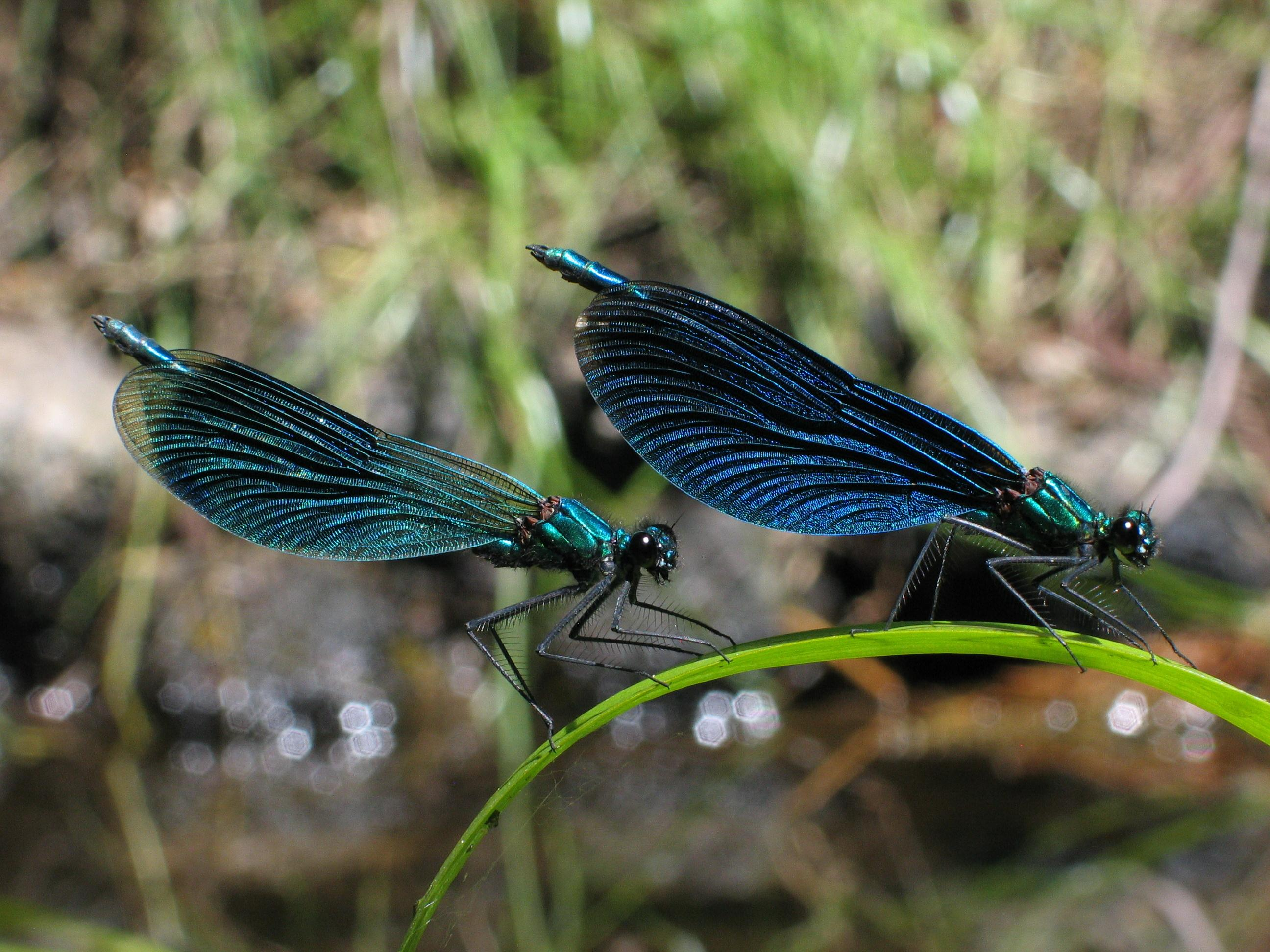 Male of Calopteryx splendens and Calopteryx virgo sitting on an aquatic plant in the Hunnau, Ammersbek, Schleswig-Holstein, Northern Germany.